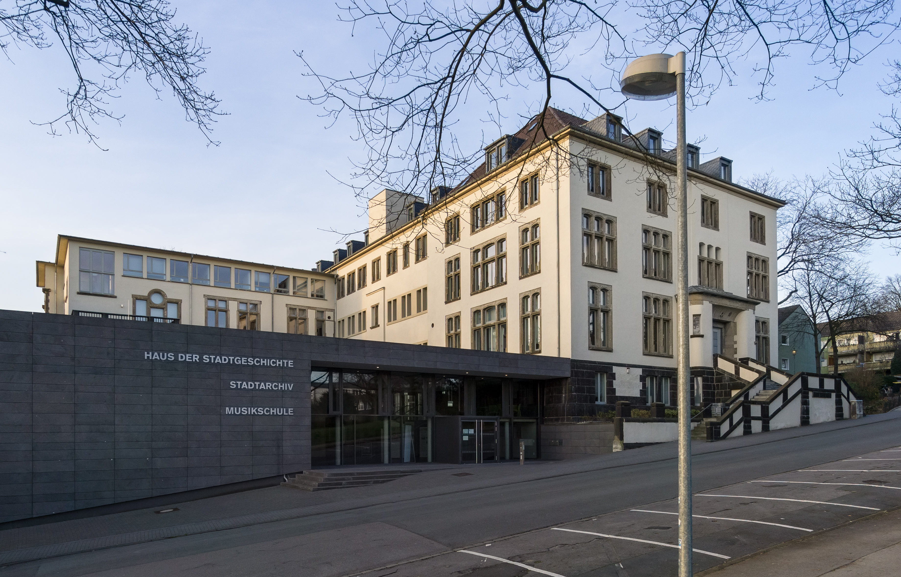 Conversion of the former ophthalmic clinic into a city history museum and a music school